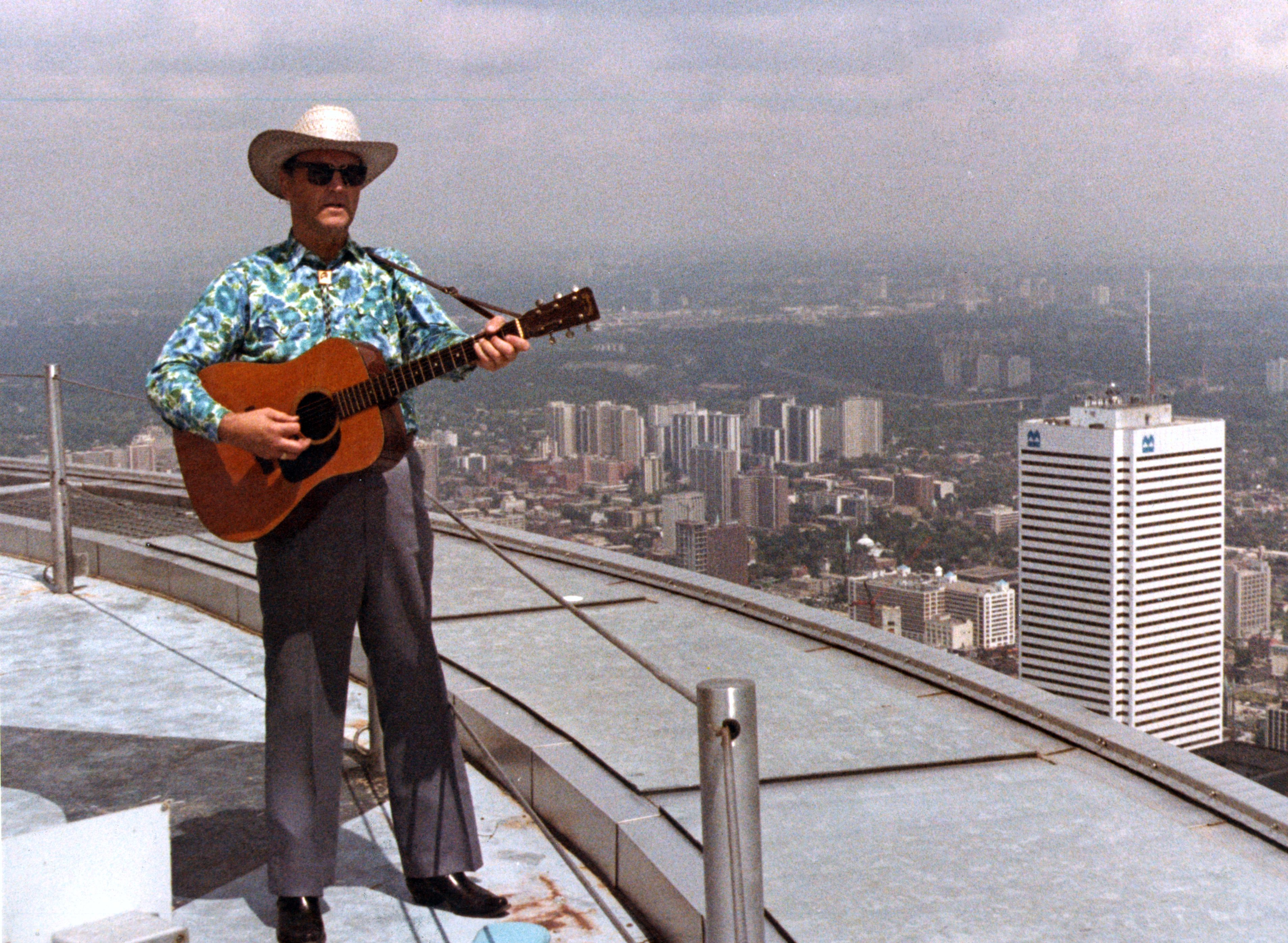 1980 colour photograph of Donn Reynolds with his guitar performing outside atop the roof of the main deck of the CN Tower.